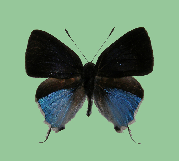 Sinthusa makikoae, male, upperside